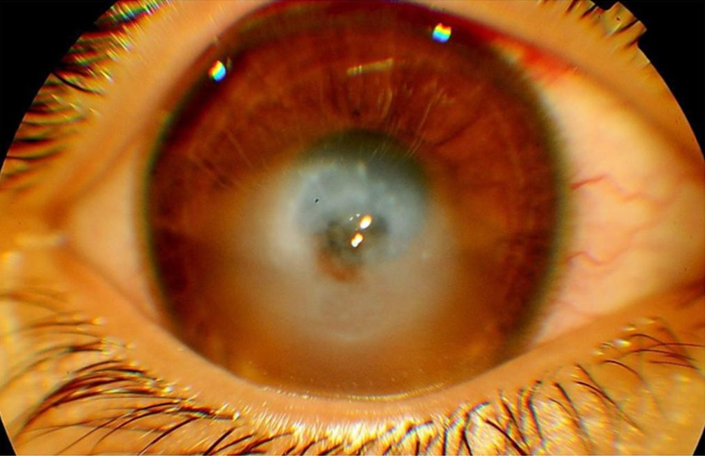 Slit lamp exam of the right eye showing a central Descemet’s membrane rupture with inferocentral corneal edema (hydrops).